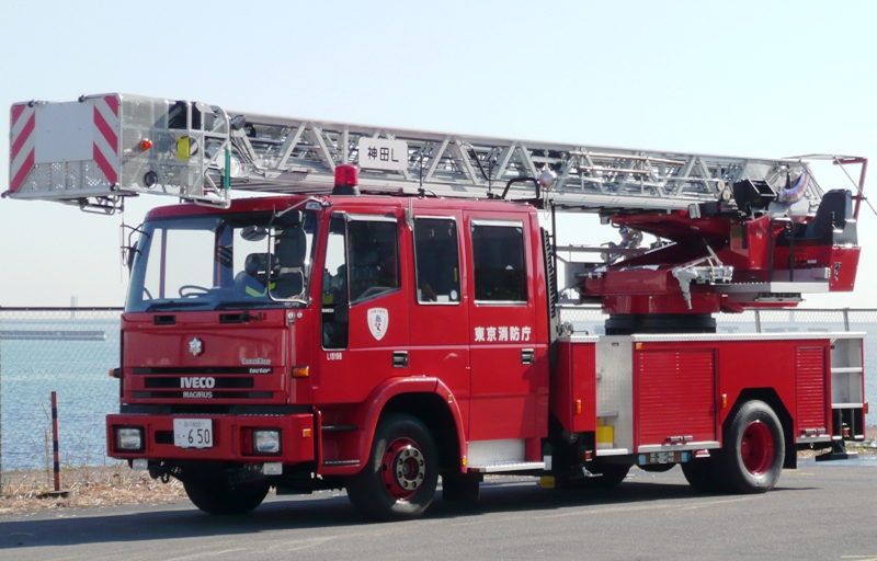 Iveco Magirus fire engine.